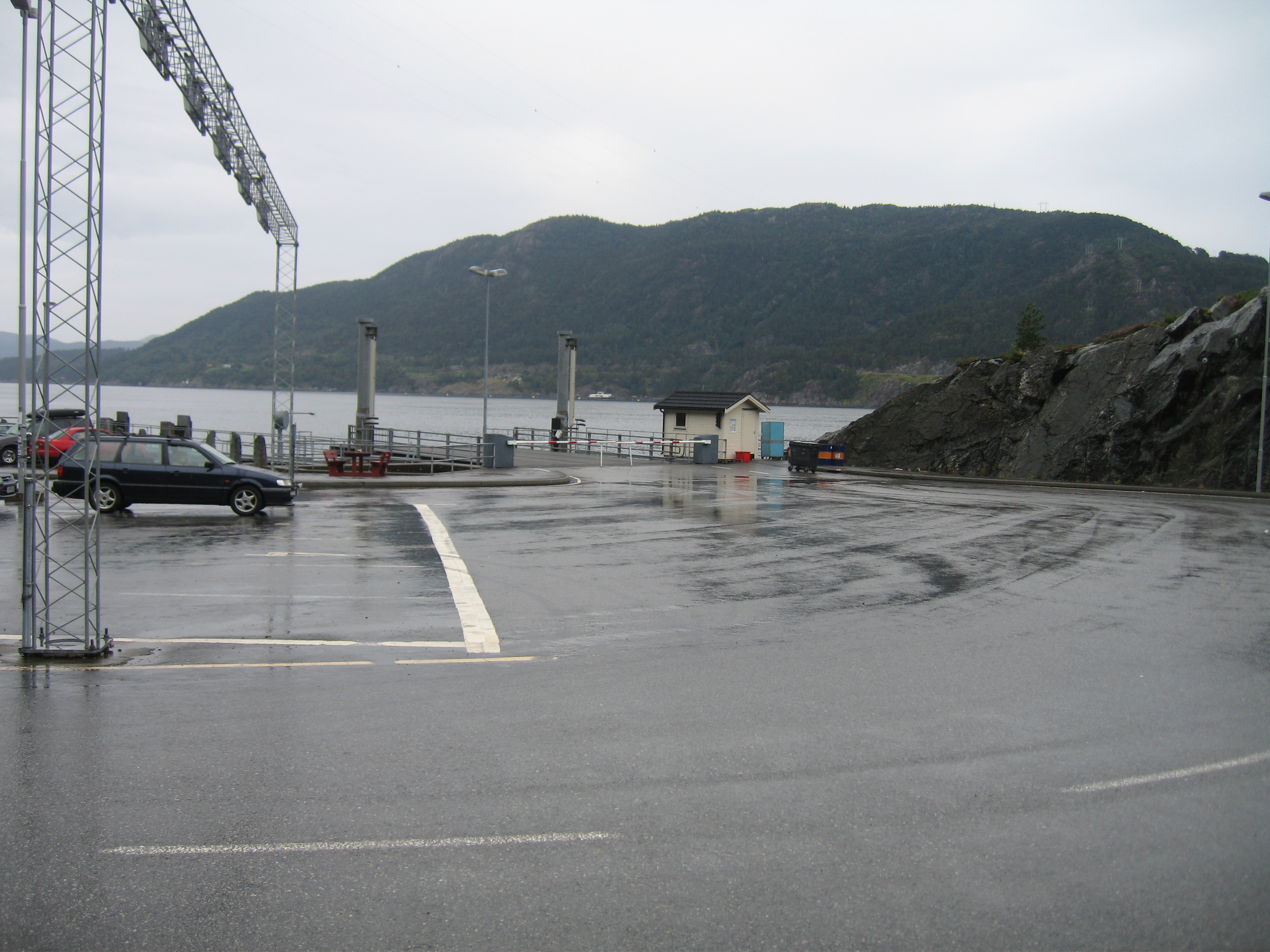 The ferry quay at Jektavik in the municipality of Stord, Hordaland, Norway. In the background lies the municipality of Tysnes.